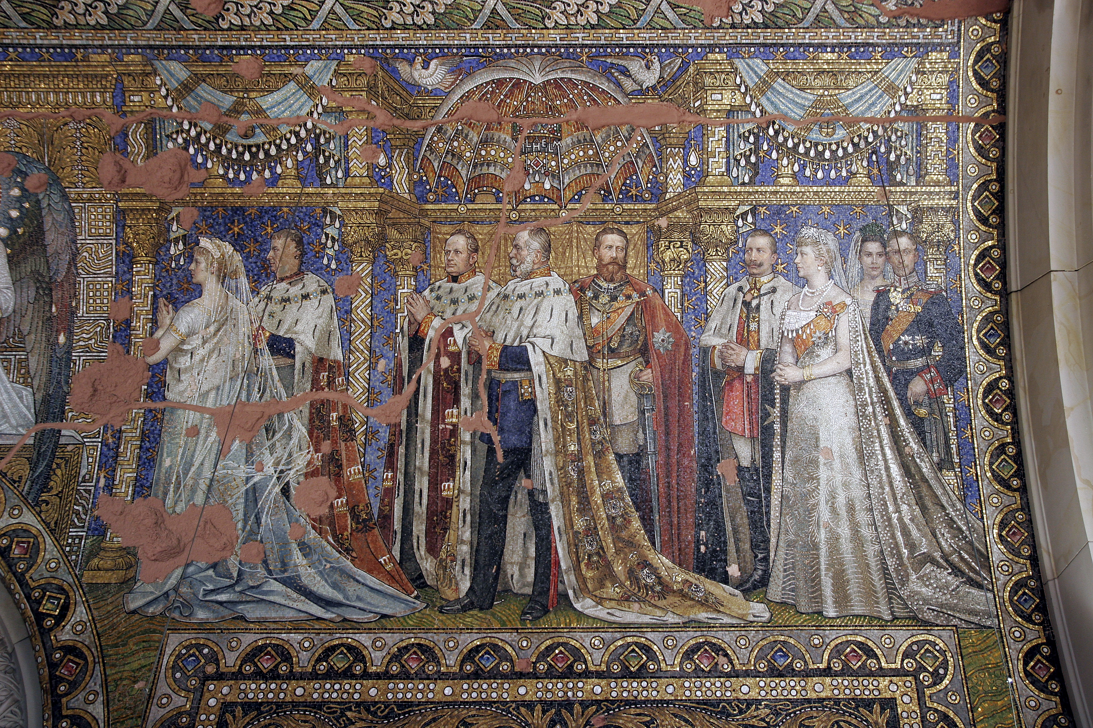 Mosaic at the ceiling of the Kaiser Wilhelm Memorial Church in Berlin